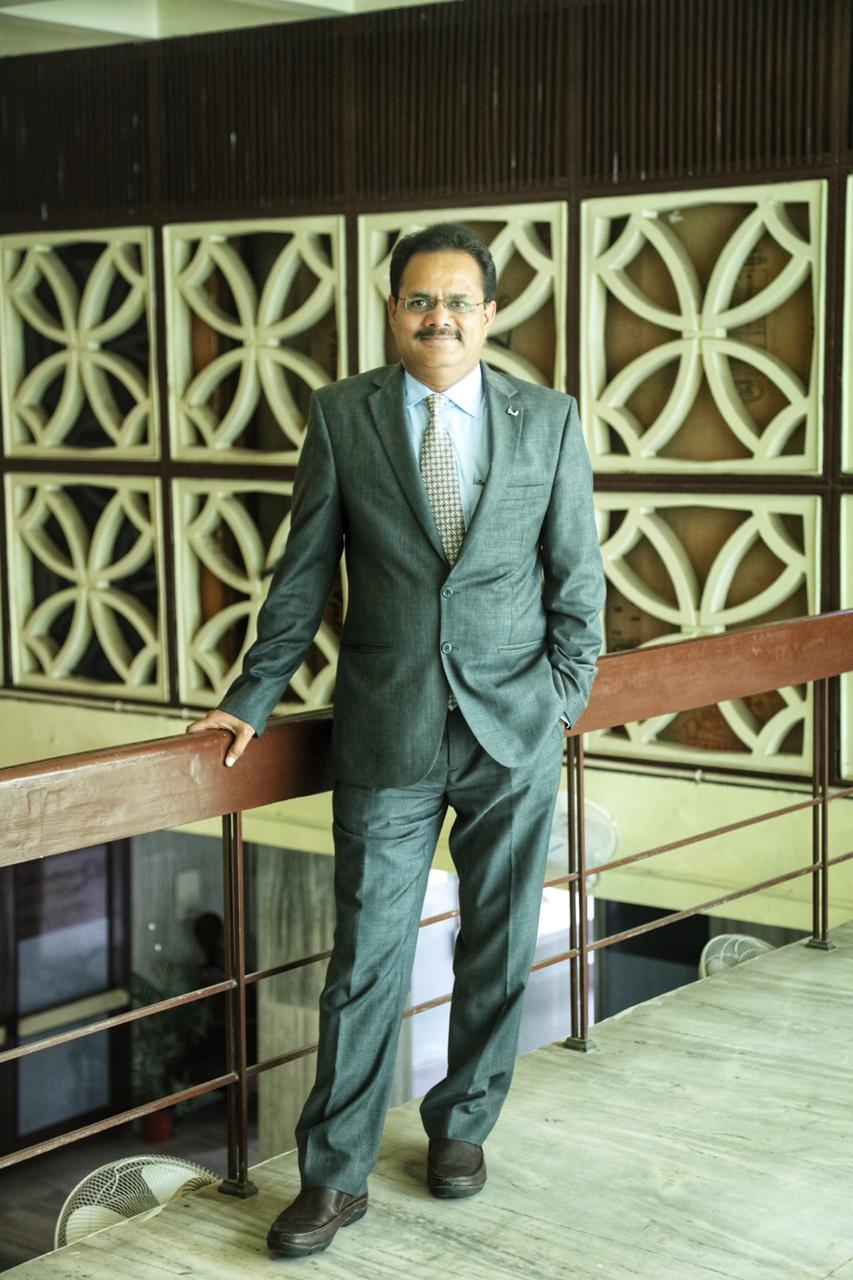 Mr. Burra Venkatesham standing at a hotel in Delhi